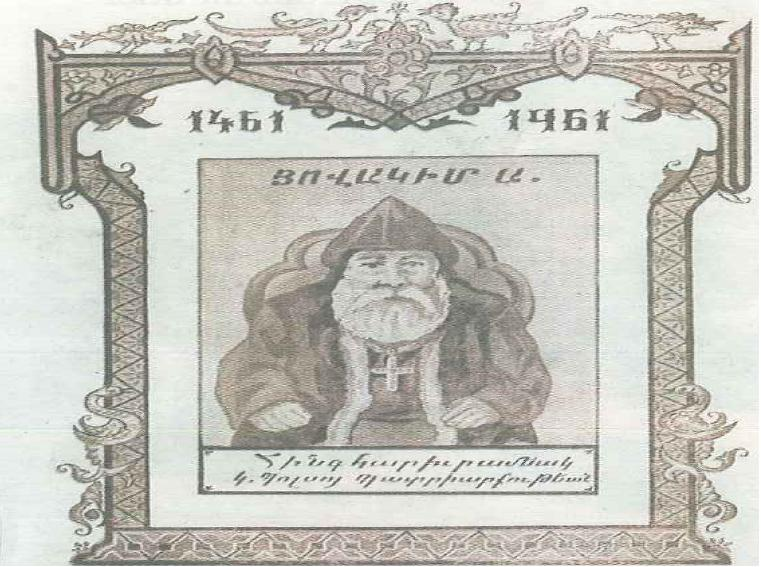 Hovakim I who was First Armenian Patriarch of Constantinople, invited by Mehmed II to Constantinople in 1461 after conquest of Constantinople.